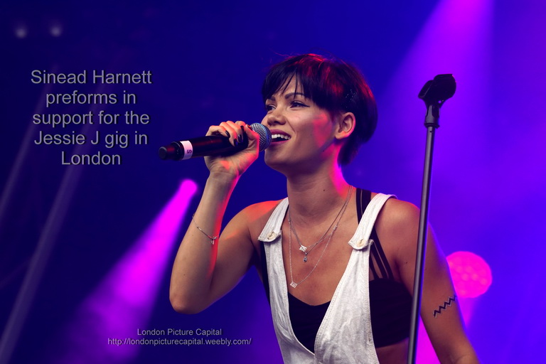 London,UK, 19th Juy 2015 : Hundreds of music fans packed inside Somerset House to watch Sinead Harnett, perform live in support for the Jessie J gig as part of the Summer Series in London. Photo by See Li